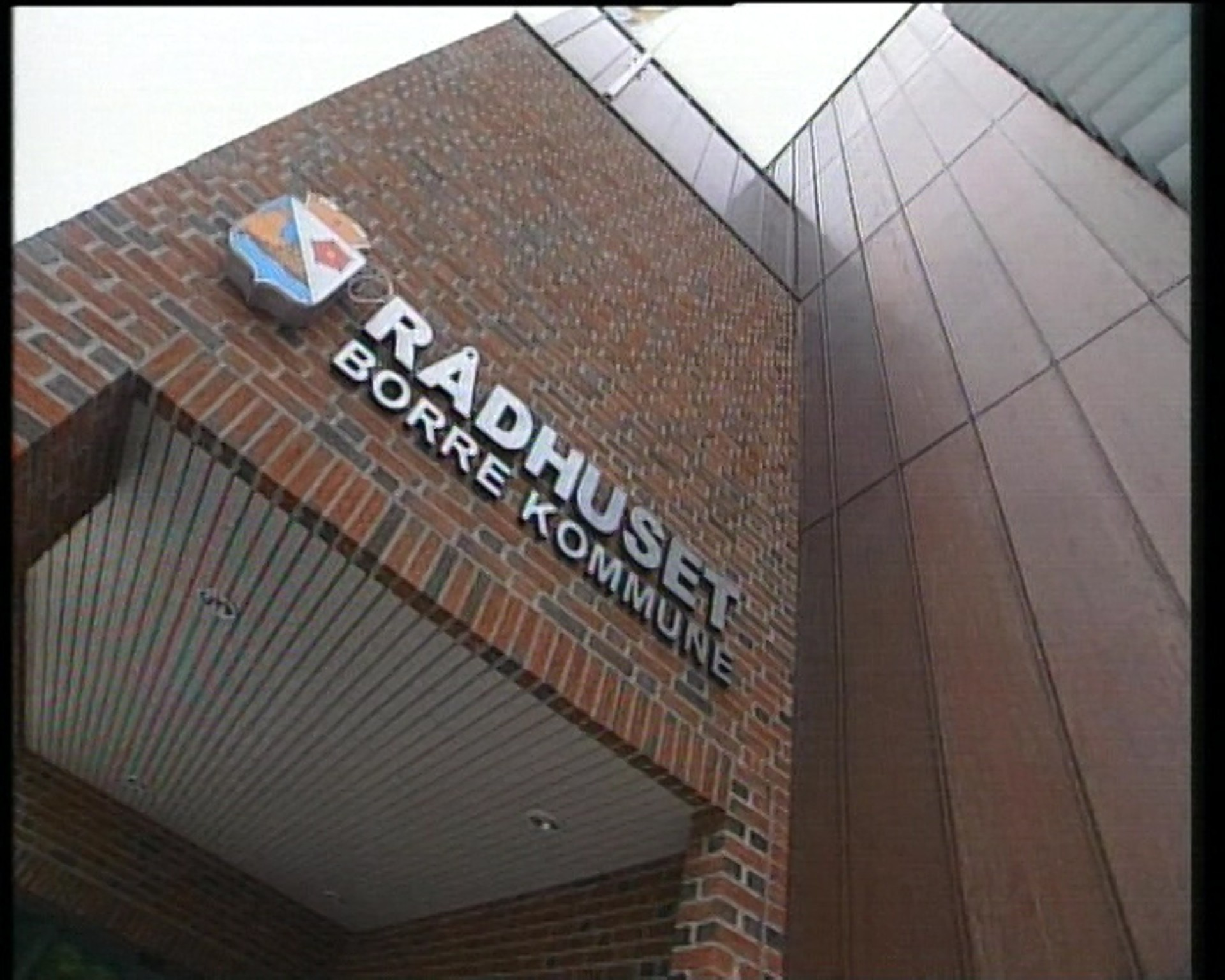 Borre rådhus in Horten